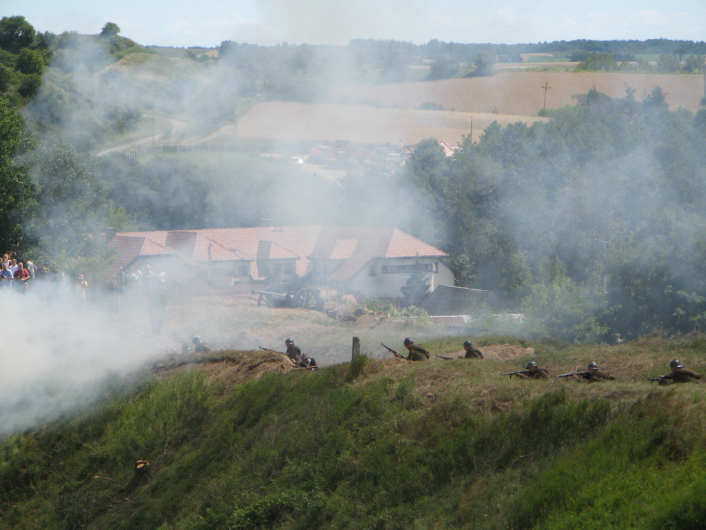 Historical reenactment of Łomża defence during Polish-Soviet War (1920) - Fortifications in Piątnica